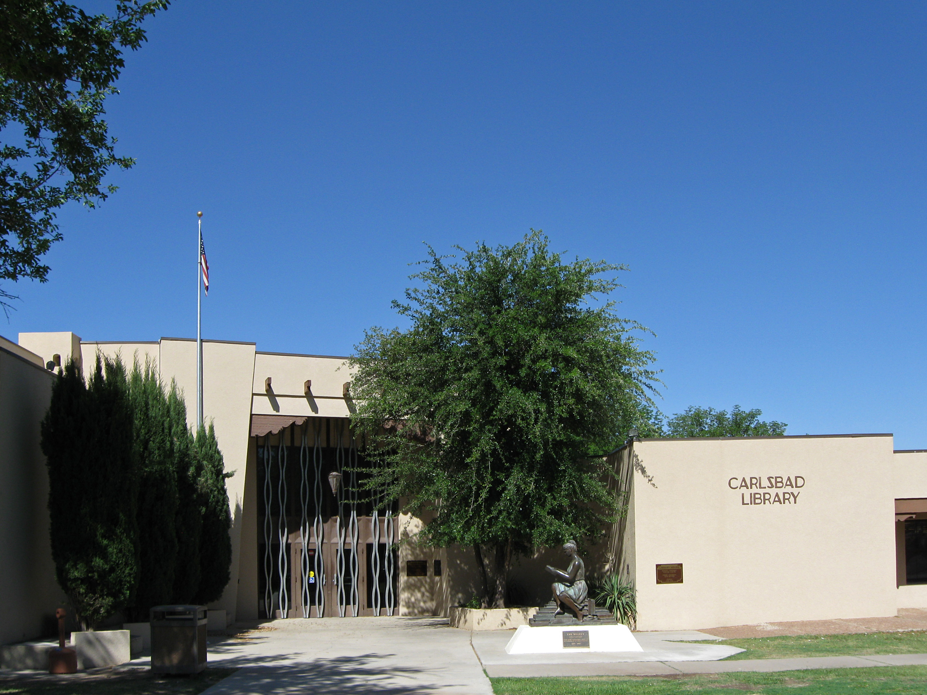 Carlsbad (New Mexico) Public Library, located at 101 South Halagueno Street in Carlsbad, New Mexico.